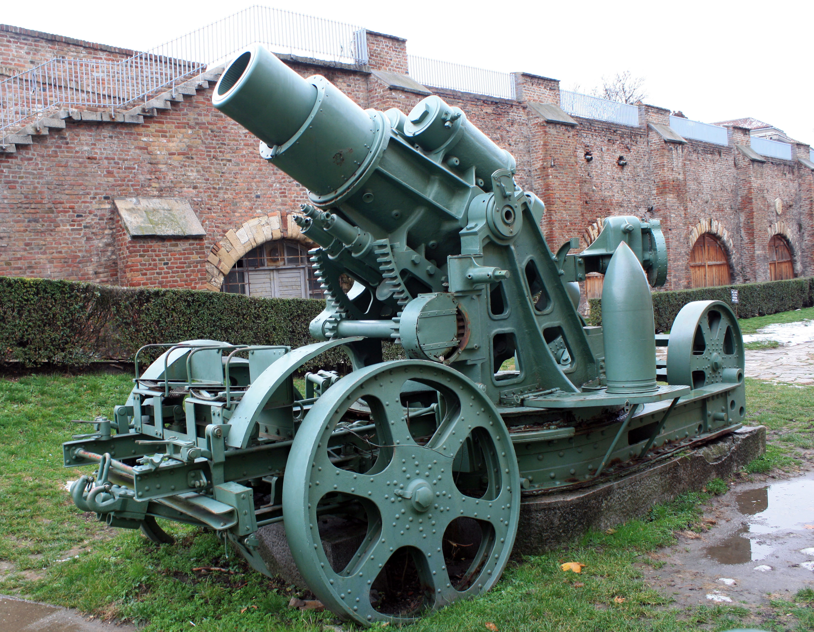 The Škoda 30.5cm Mörser M.11used by Austro-Hungarians during the Siege of Belgrade in WWI and Yugoslav Royal Army postwar, part of Belgrade Military Museum outer exhibition at Kalemegdan fortres.